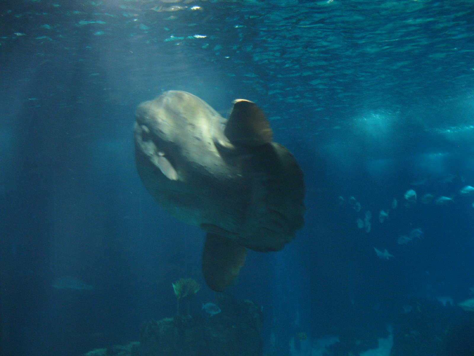 Ocean Sunfish in the aquarium